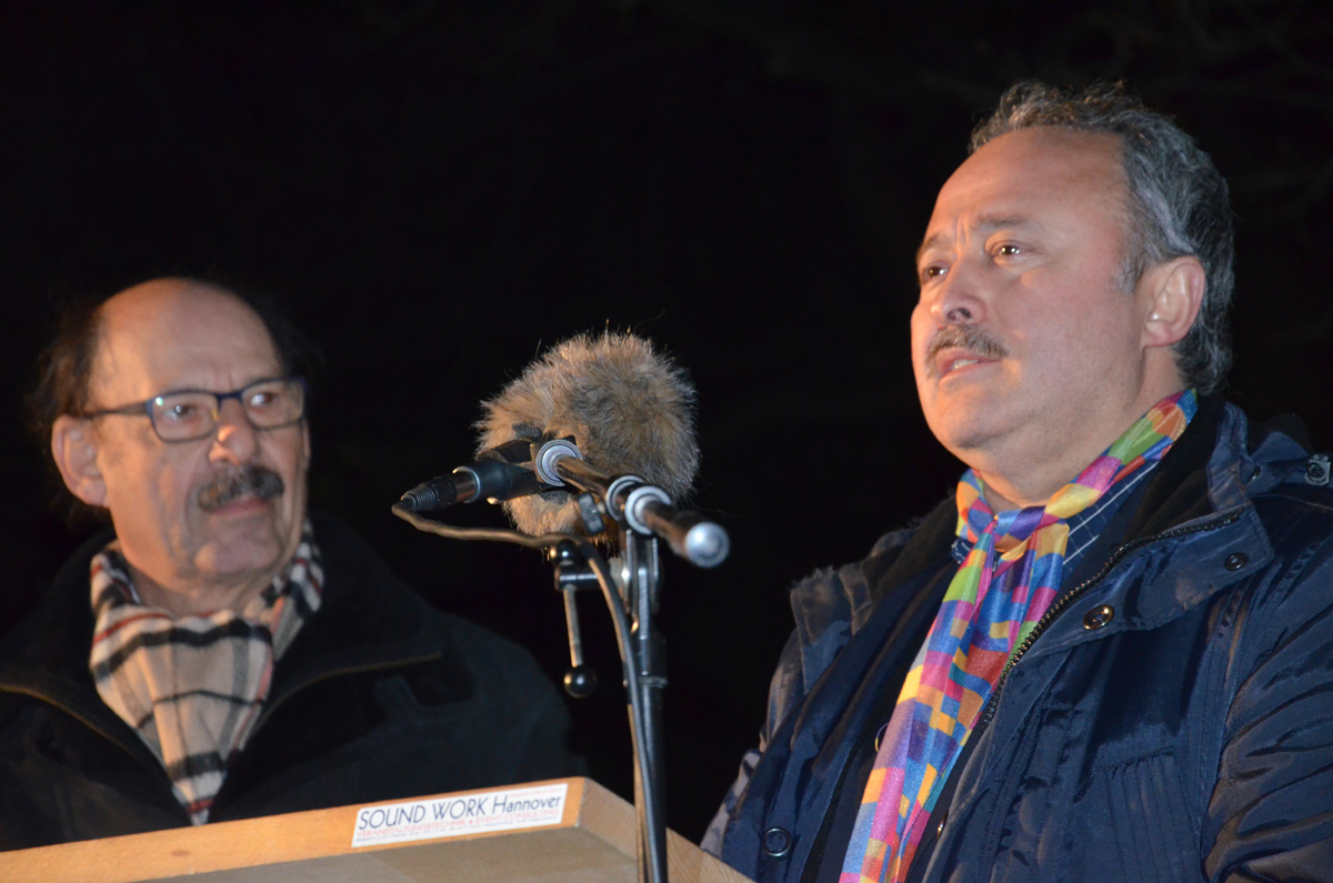 Hanover ...